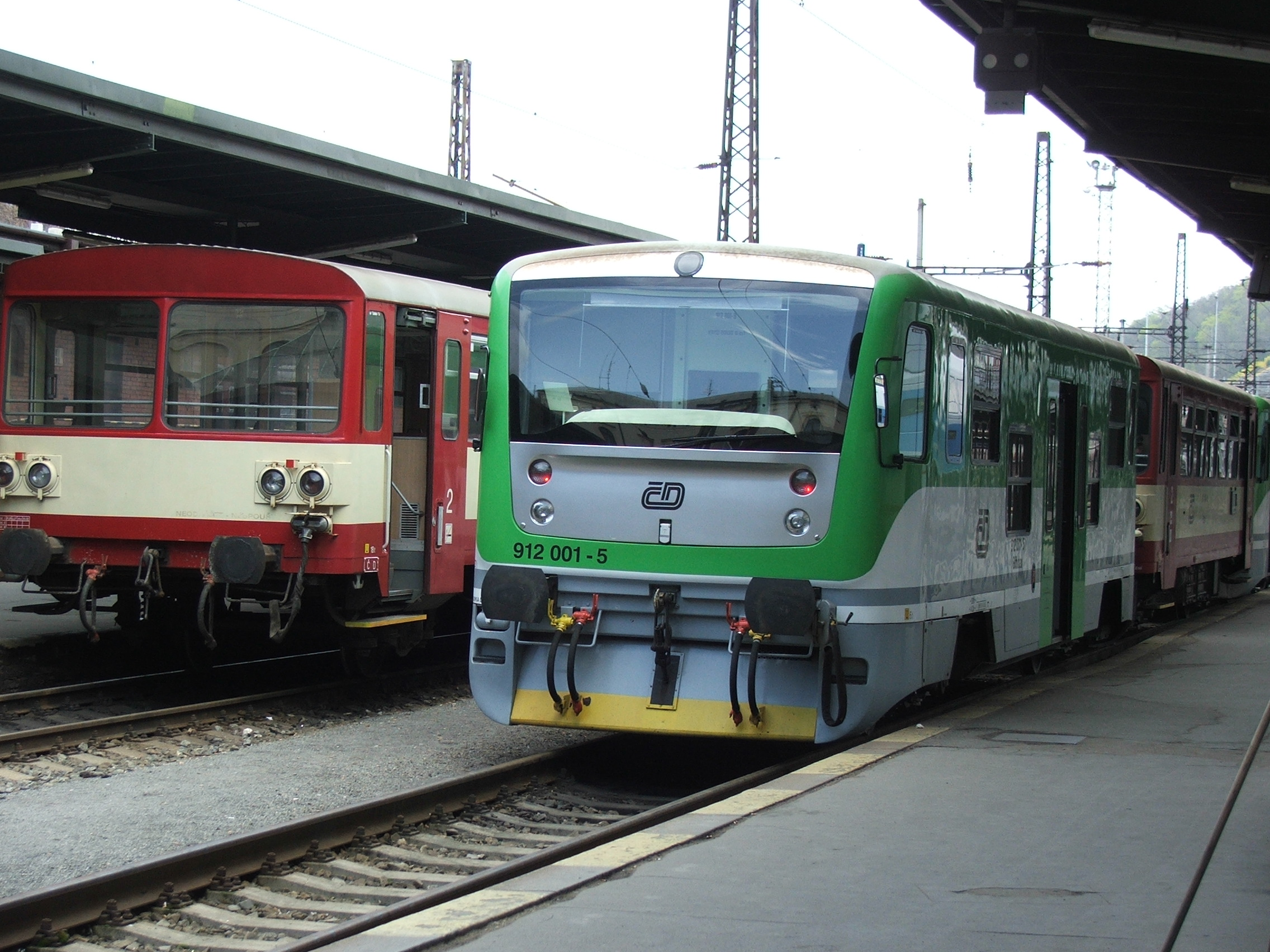 Diesel multiple unit 912 and rali car 010 at Masarykovo nádraží